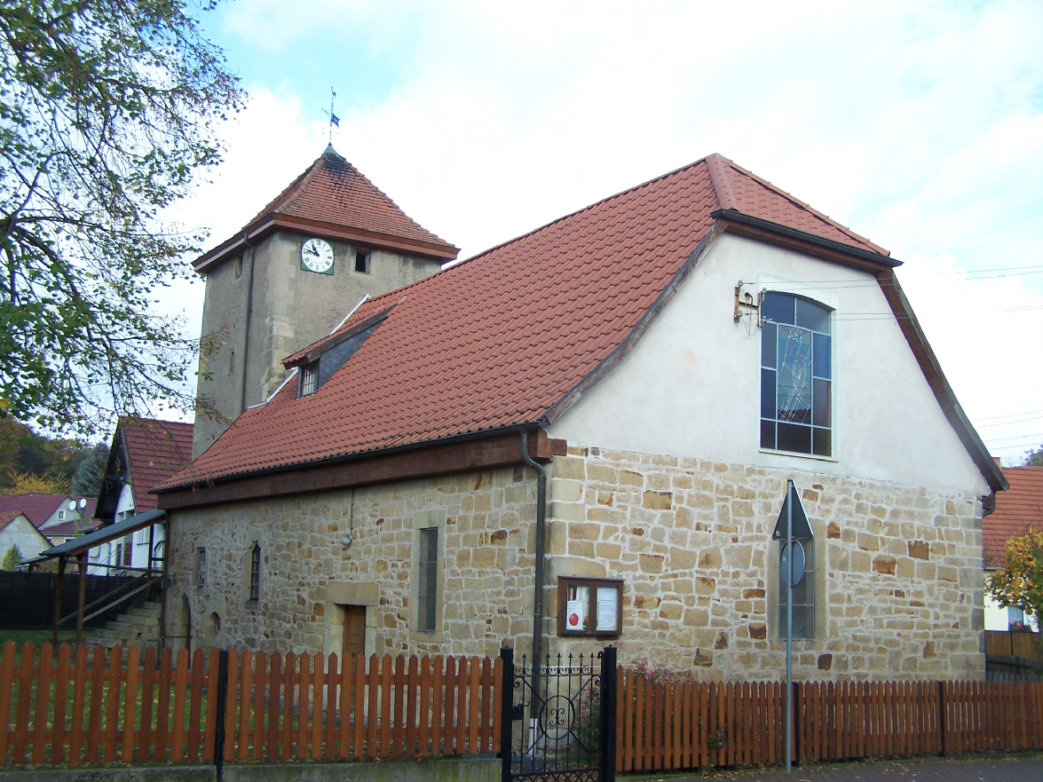 The Church in Krauthausen.